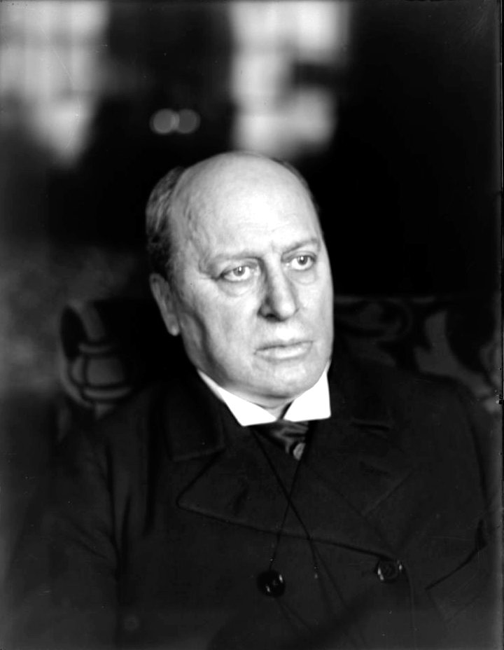 Accession Number: 1974:0056:0915 Maker: William M. Vander Weyde (American 1871–1929) Title: Henry James Date: ca. 1900 Medium: negative, gelatin on glass Dimensions: 8.5 x 6.5 inches George Eastman House Collection